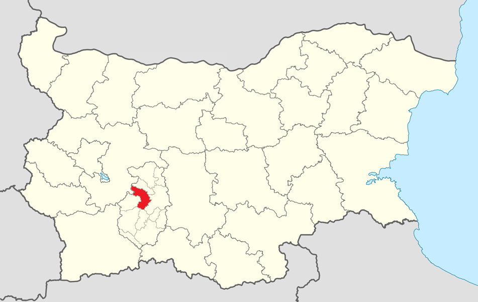 Location map of Septemvri Municipality within Bulgaria and Pazardzik province